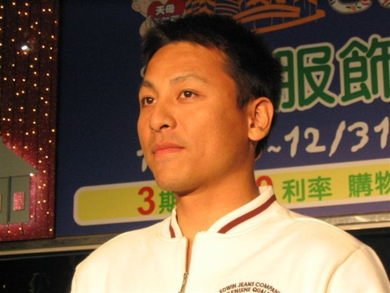 Typical Compact Disc with reflection.